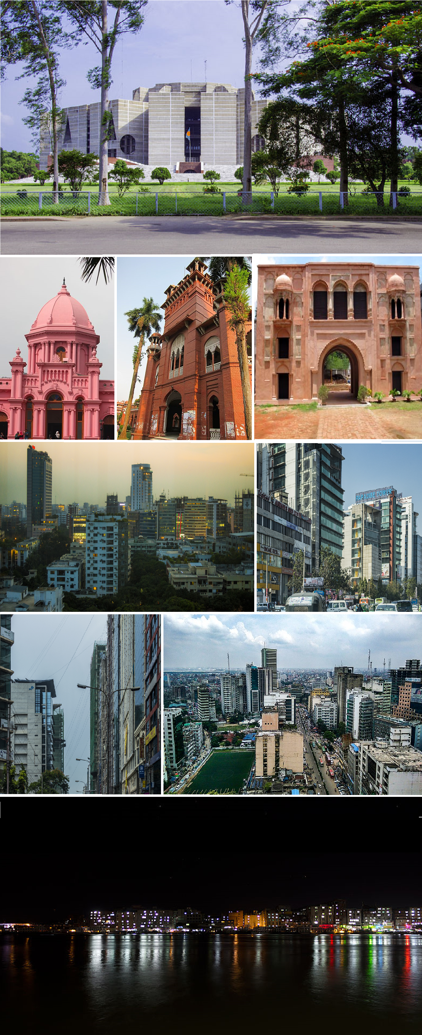 Images collected from following National Perliament Ahsan Manzil Curzon Hall at University of Dhaka Asiatic Society of Bangladesh Gulshan, Dhaka Uttara, Dhaka Banani Model Town Motijheel, Dhaka Dhaka Sadarghat